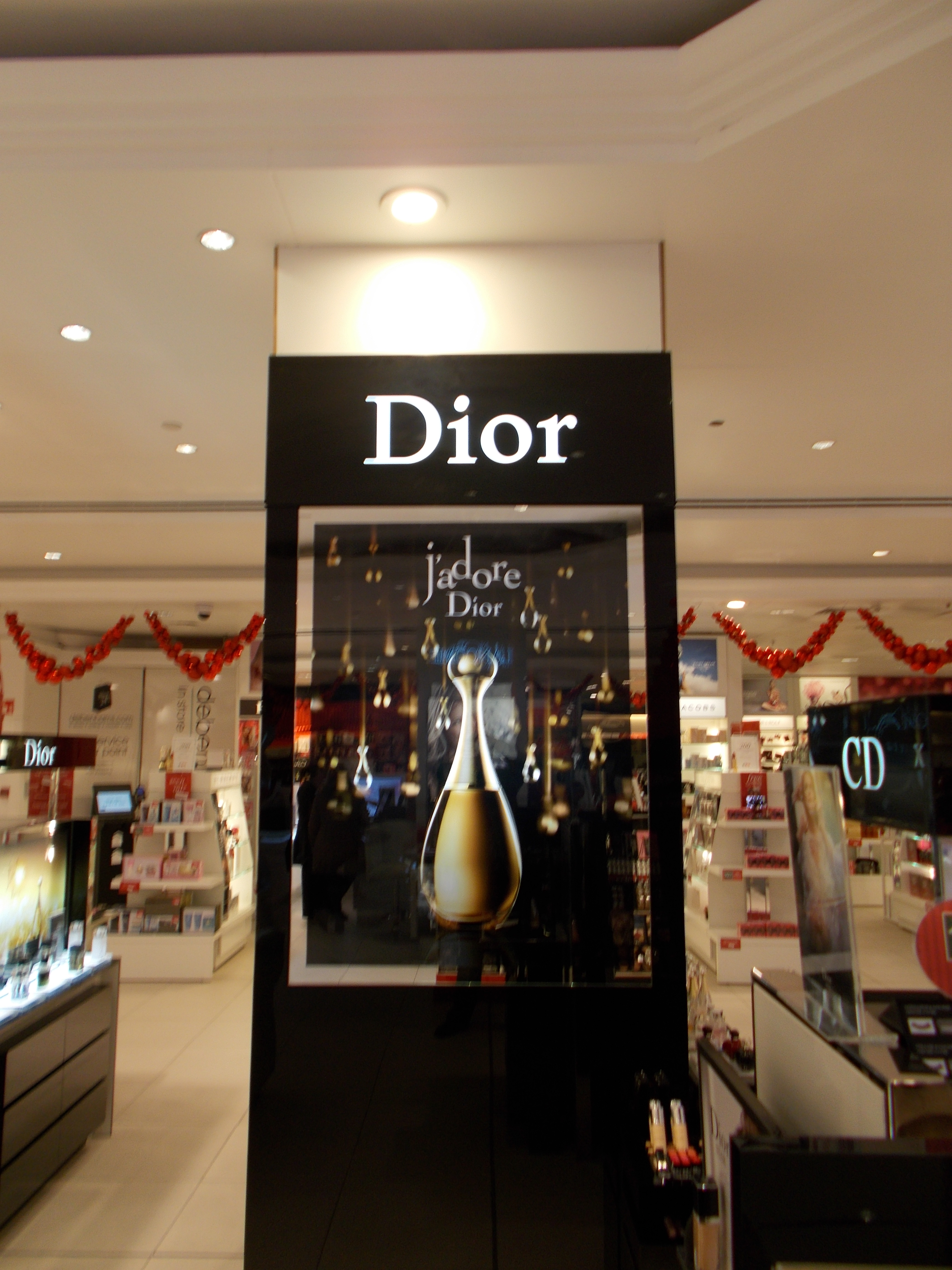 Dior, Debenhams, Sutton, Surrey, London